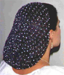 A married Jewish woman wears a Sheitel with a snood on top of it.